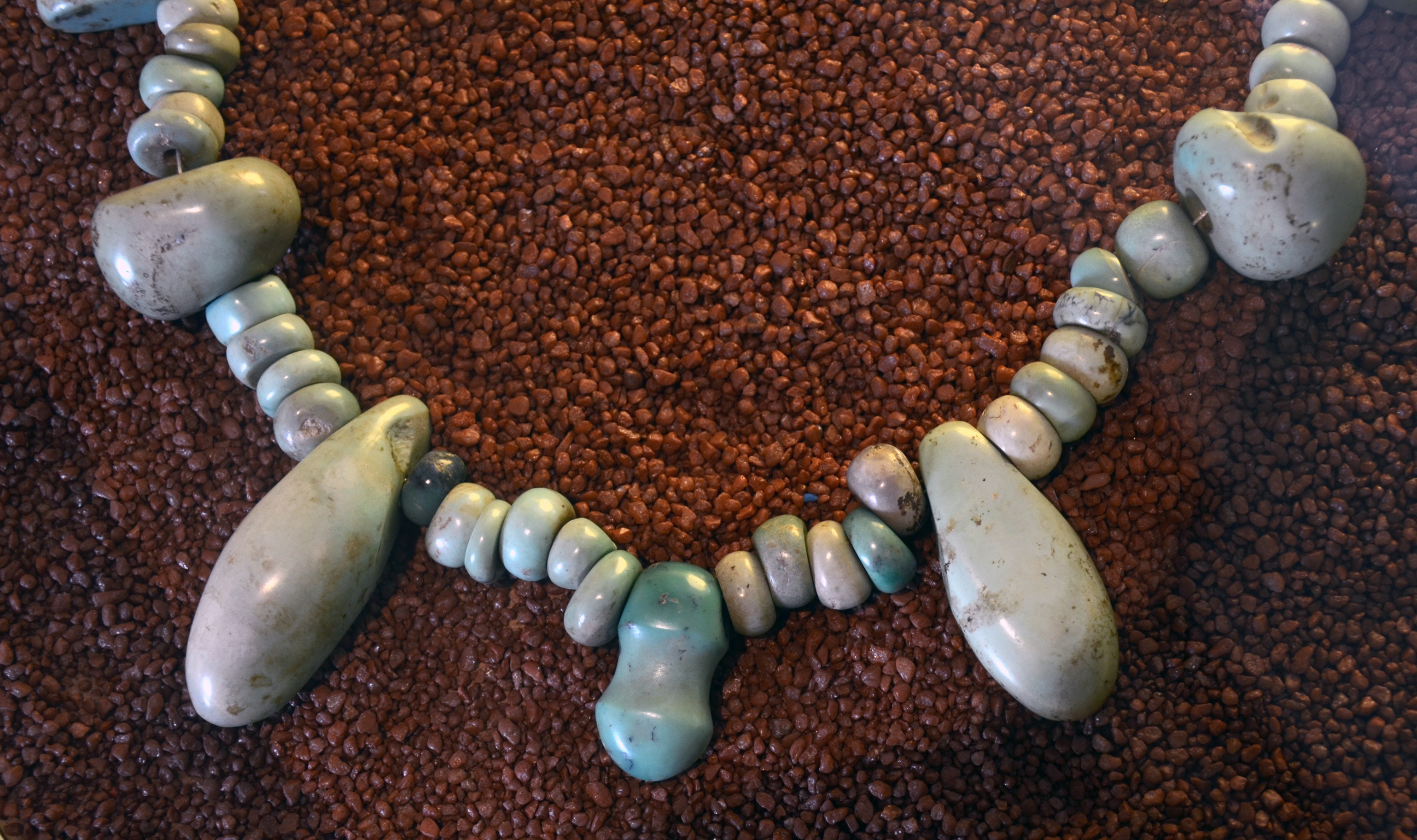 Necklace in callaïs ( this one in variscite ) found in the tumulus of Tumiac ( Presqu'île de Rhuys, Morbihan, Bretagne, France ).Neolithic, 4500 - 4000 BC. Musée d'Histoire et d'Archéologie de Vannes.